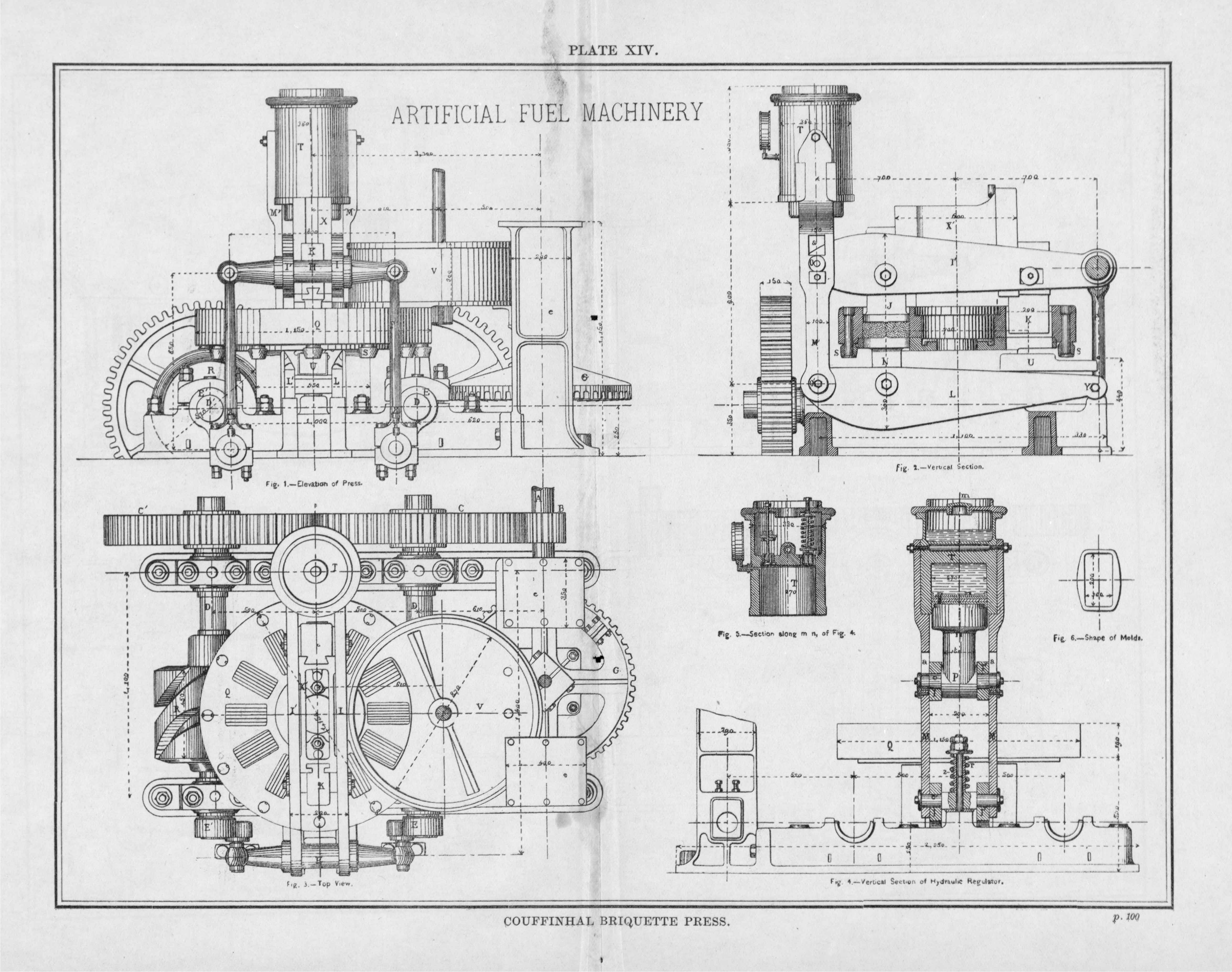 Couffinhal Briquette Press (steam press), ca. 1900